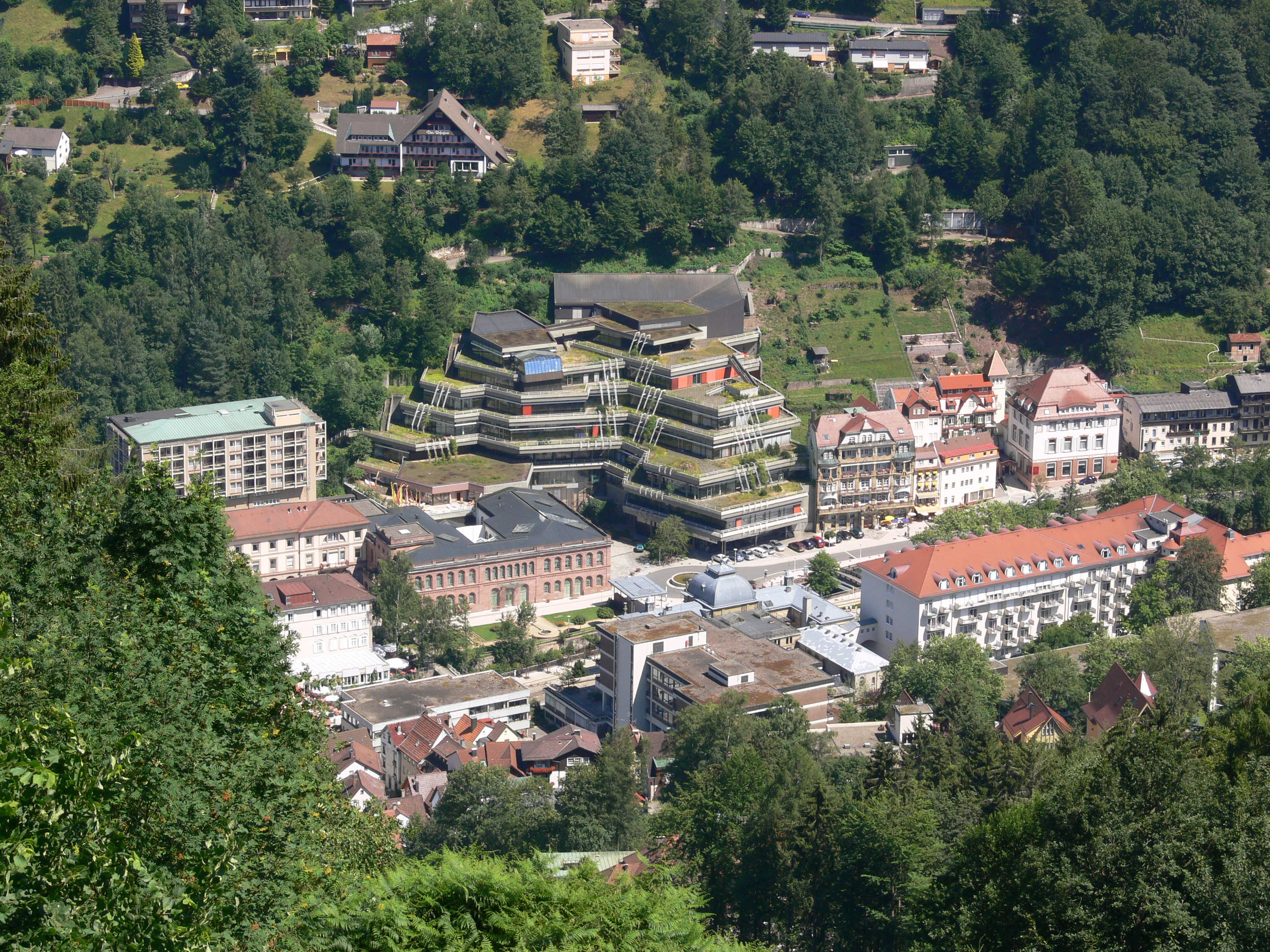 Bad Wildbad, Blick vom Sommerberg auf das Palais Thermal (Bildmitte links) Photographed by Andreas Praefcke, 2006